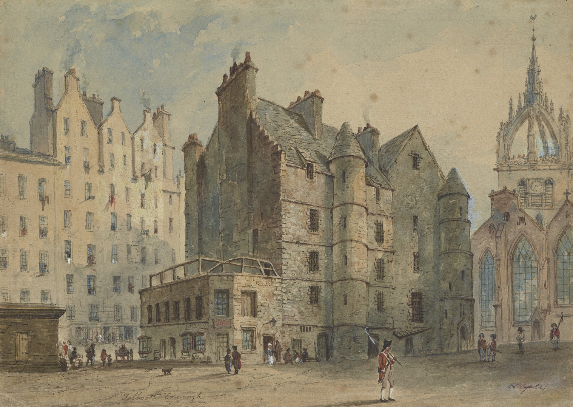 Henry Gibson Duguid The Tolbooth and St Giles Cathedral, Edinburgh William Finlay Watson Bequest 1881